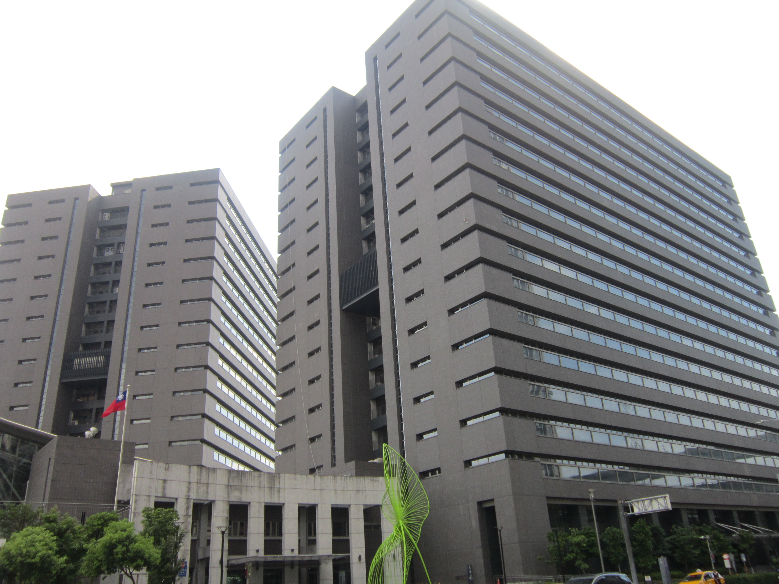 Xinzhuang Joint Office Tower, Executive Yuan.